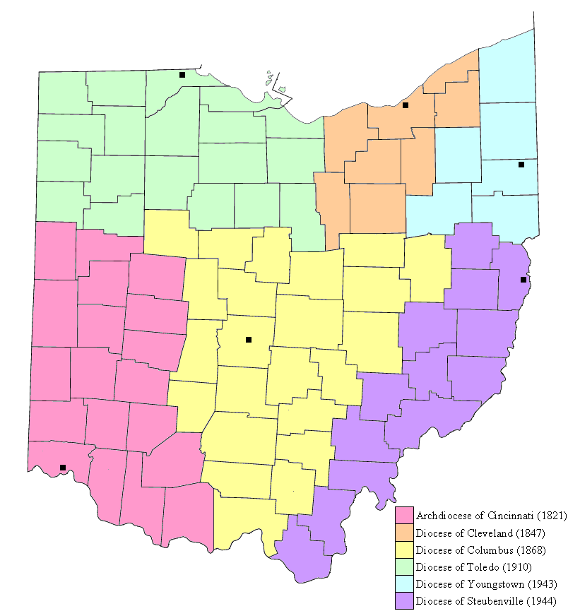 Map of the Ecclesiastical province of Cincinnati. Diocesan map of Ohio with the Diocese of Cleveland in tan. Diocesan map of Ohio with the Diocese of Columbus in light yellow. Diocesan map of Ohio with the Diocese of Steubenville in turquoise. Diocesan map of Ohio with the Diocese of Toledo in light green.